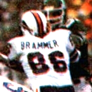 Buffalo Bills tight end Mark Brammer pictured in an offensive play against the New York Jets in the 1981 AFC Wild Card Playoff Game on December 27, 1981.